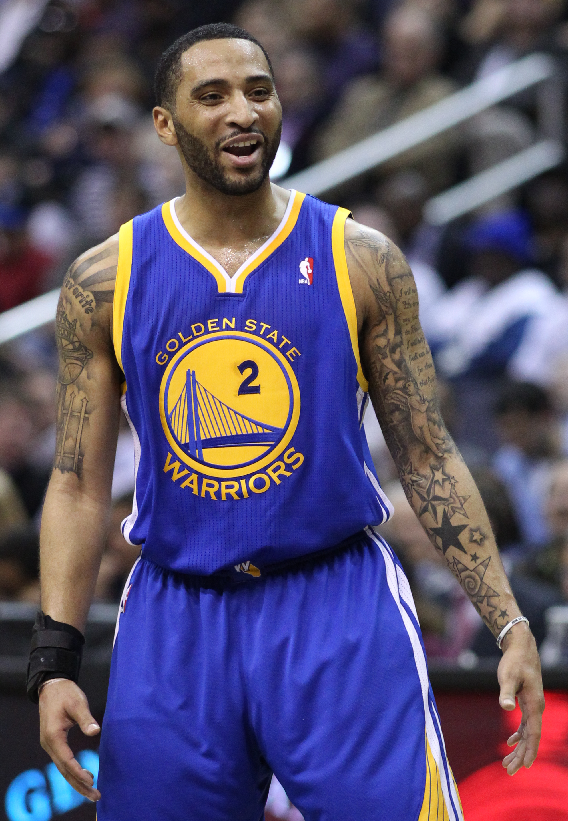 Wizards v/s Warriors 03/02/11